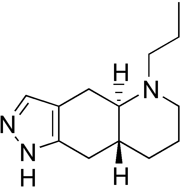 chemical structure of quinpirole